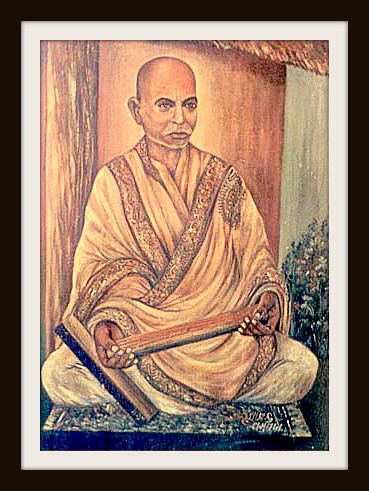 Photo wsa being taken at secretariat, Bhubaneswar & edited in photoshop. The original painting credit goes to Govt of odisha.